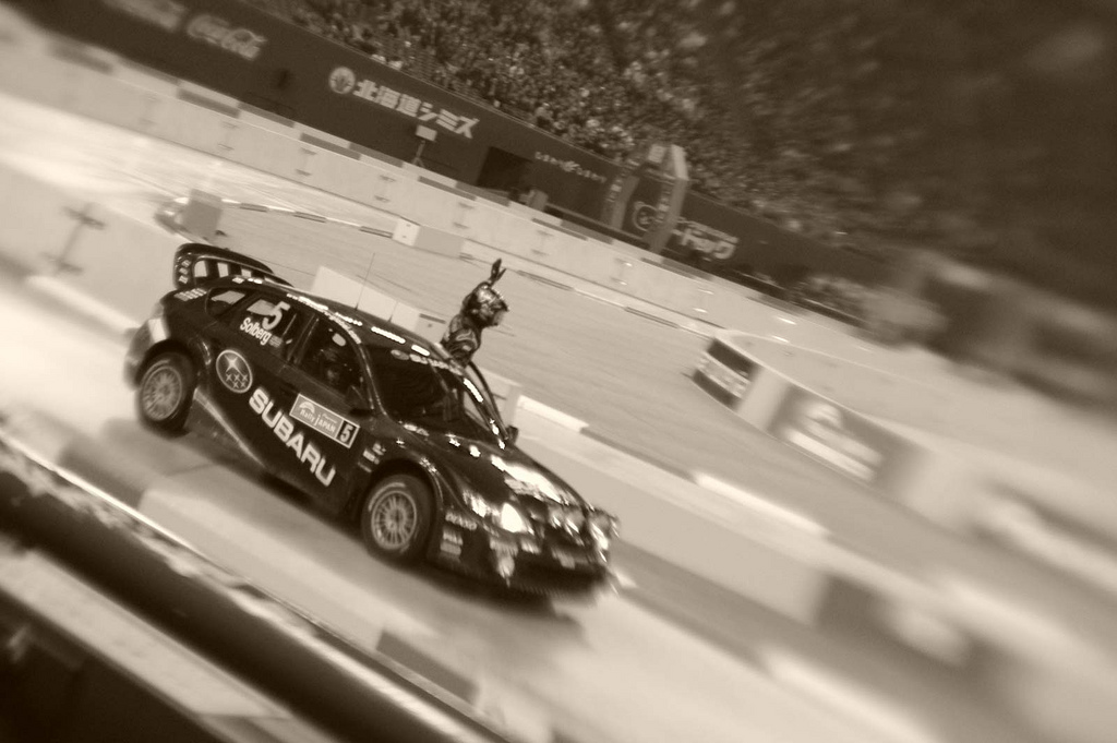 Petter Solberg driving his Subaru Impreza WRC2008 at a Sapporo Dome super special stage of the 2008 Rally Japan.